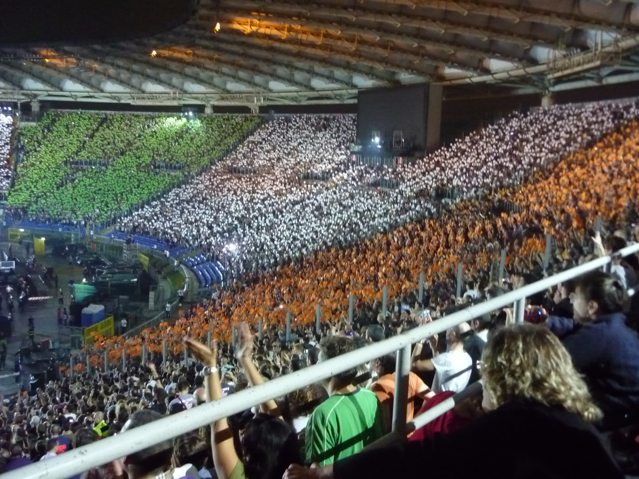 U2 Live at Olympic Stadium in Rome